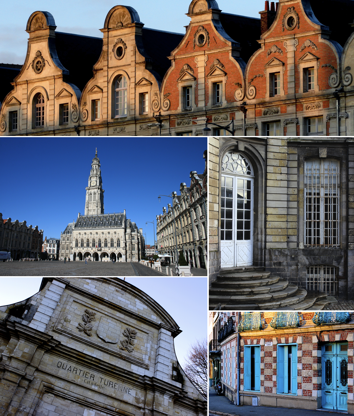 Photo montage of Arras.